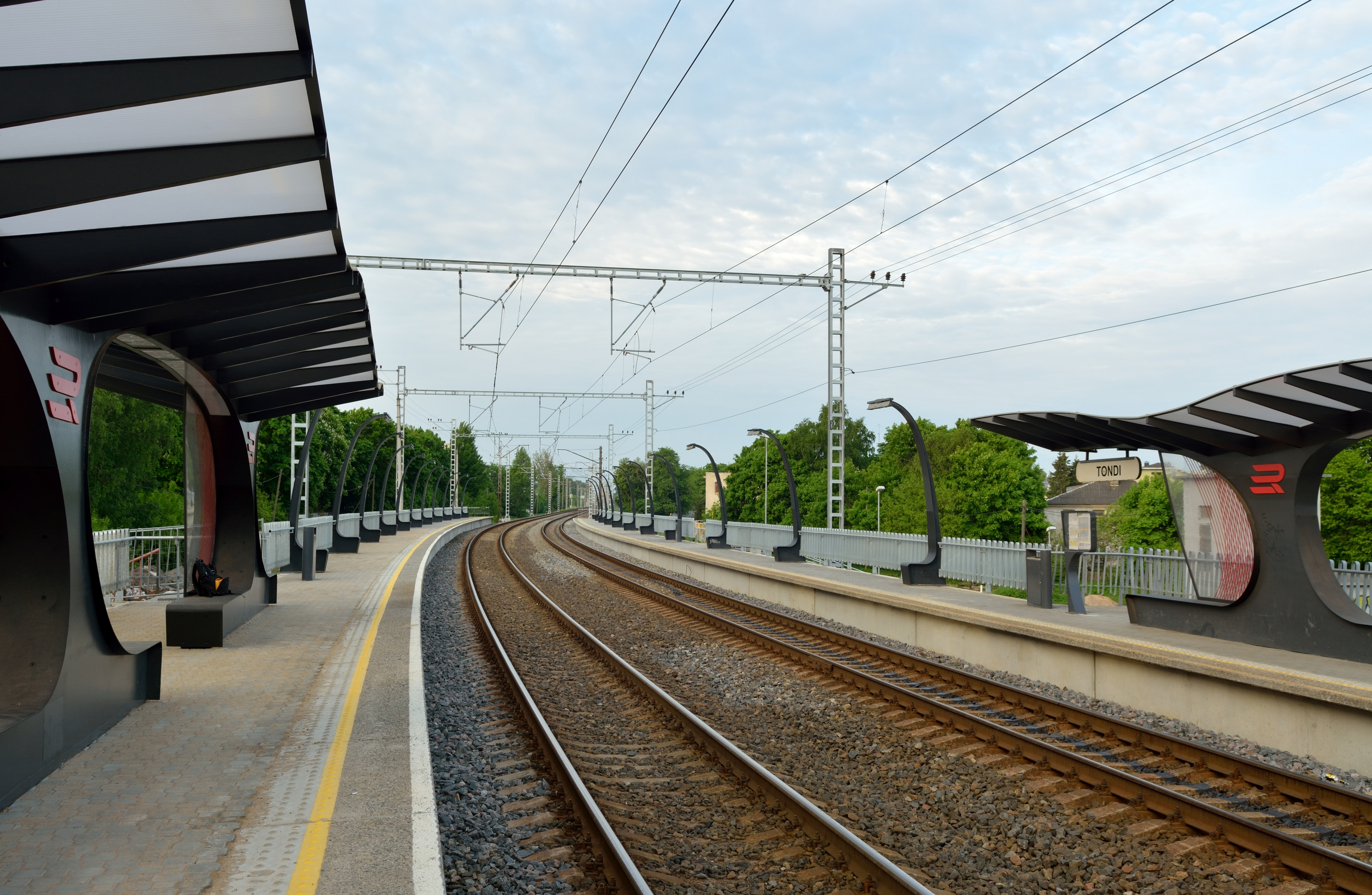 Tondi train stop